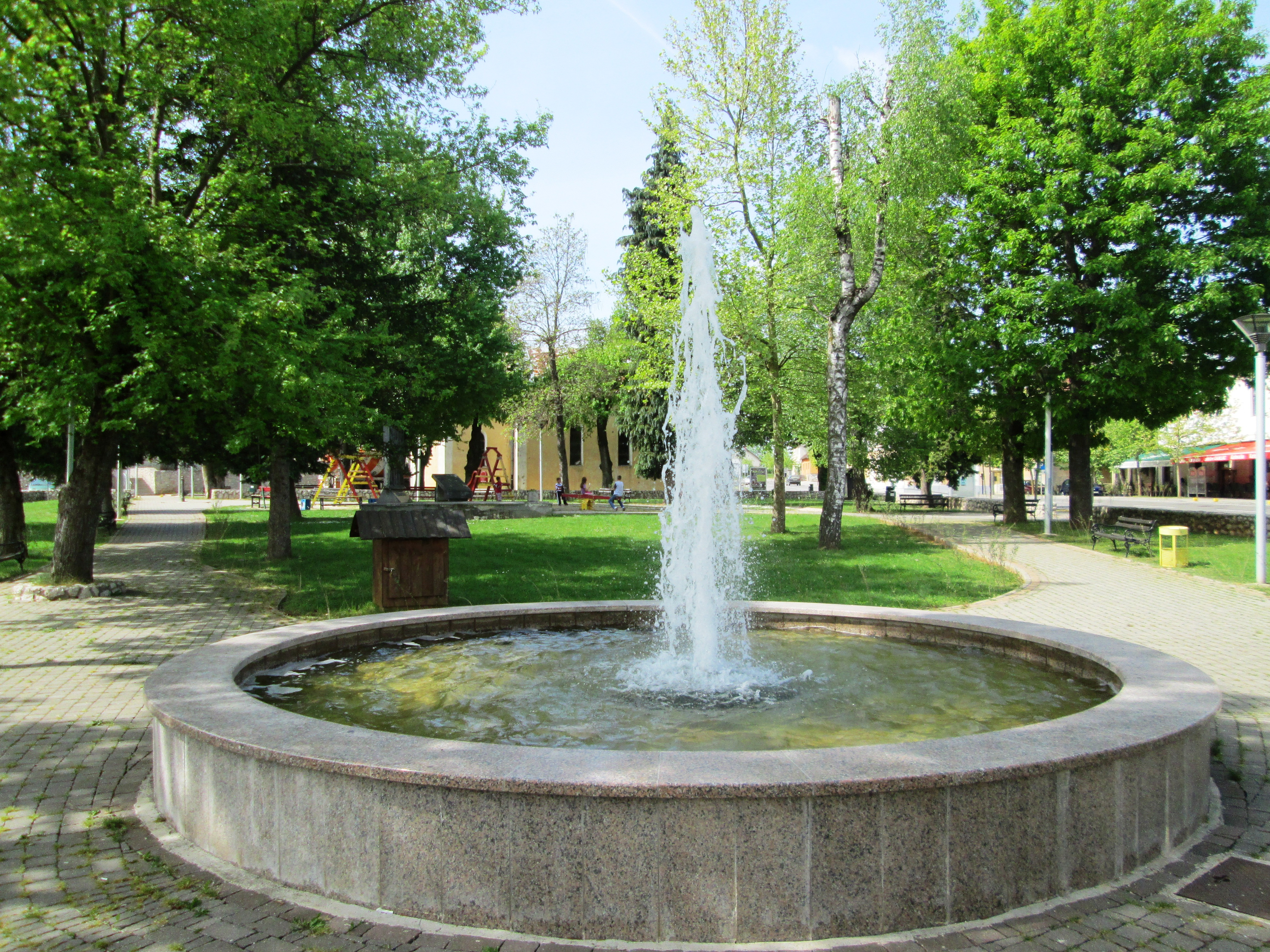 Park in Perusic, Croatia